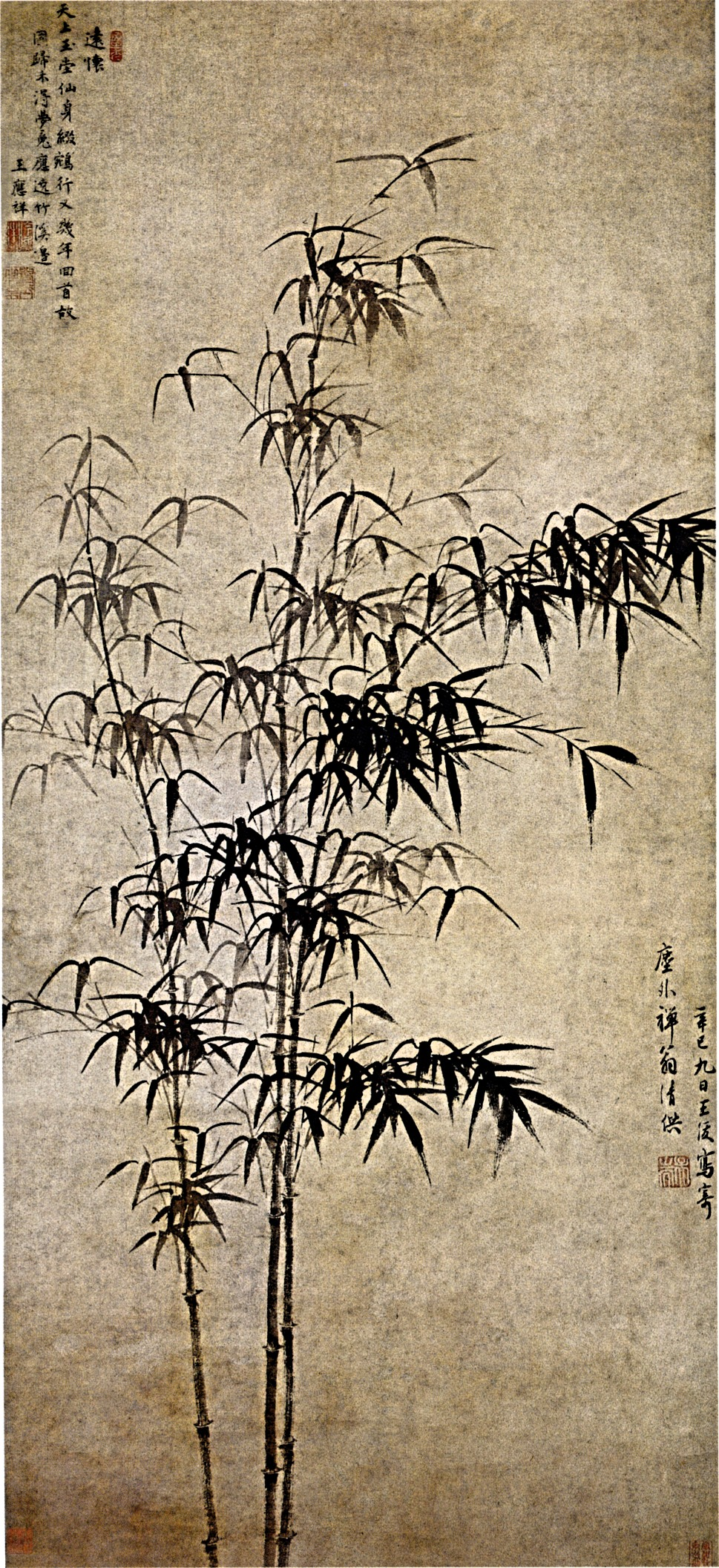 Ink Bamboo, hanging scroll, ink on paper, 113.2 x 51.2 cm. Located at the Palace Museum, Beijing.